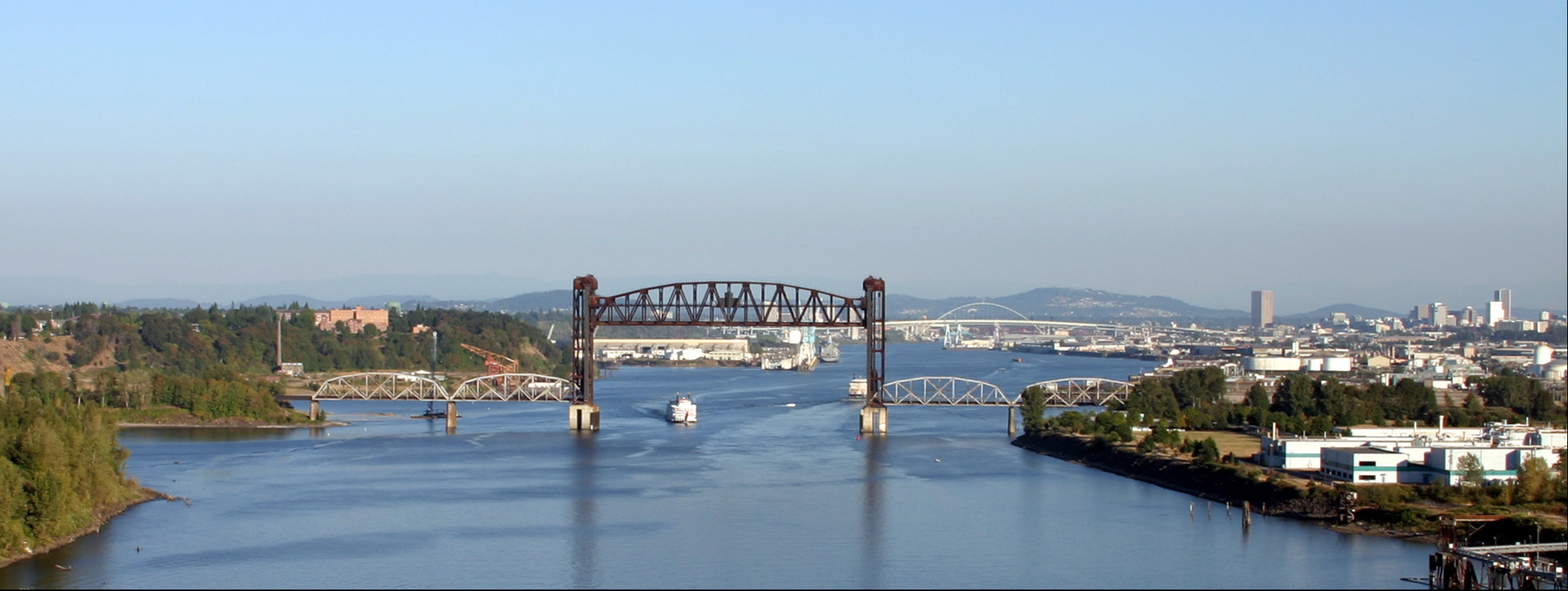 The Burlington Northern Railroad Bridge 5.1, spanning the Willamette River, in Portland, Oregon. Taken from atop the St. Johns Bridge.